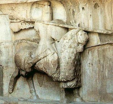 Relief Taq-e Bostan (Kermanshah Province in Iran) from the era of Sassanid Empire: One of the oldest depictions of a cataphract.